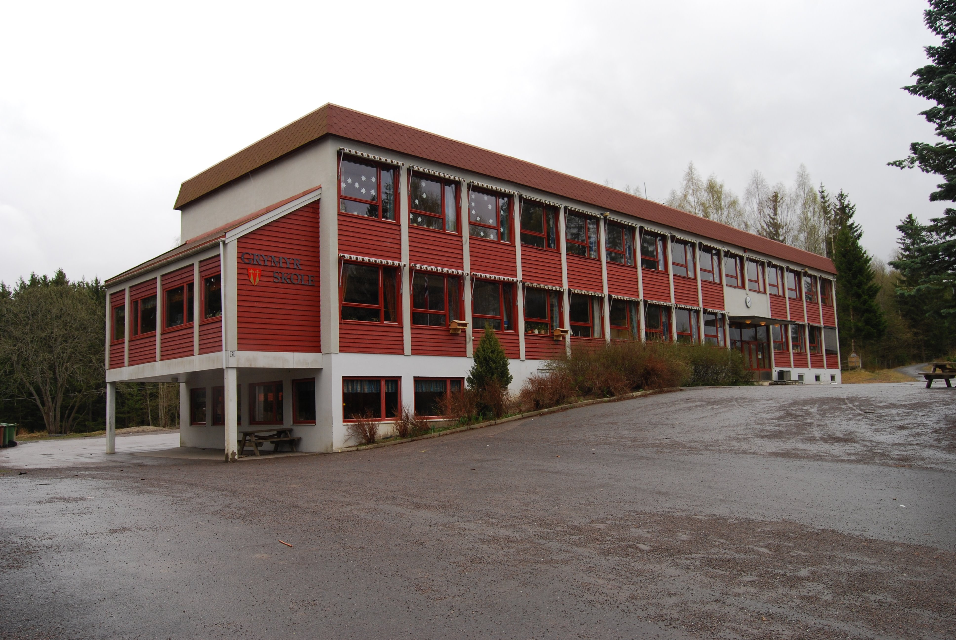 Grymyr elementary school, Gran, Oppland, Norway.